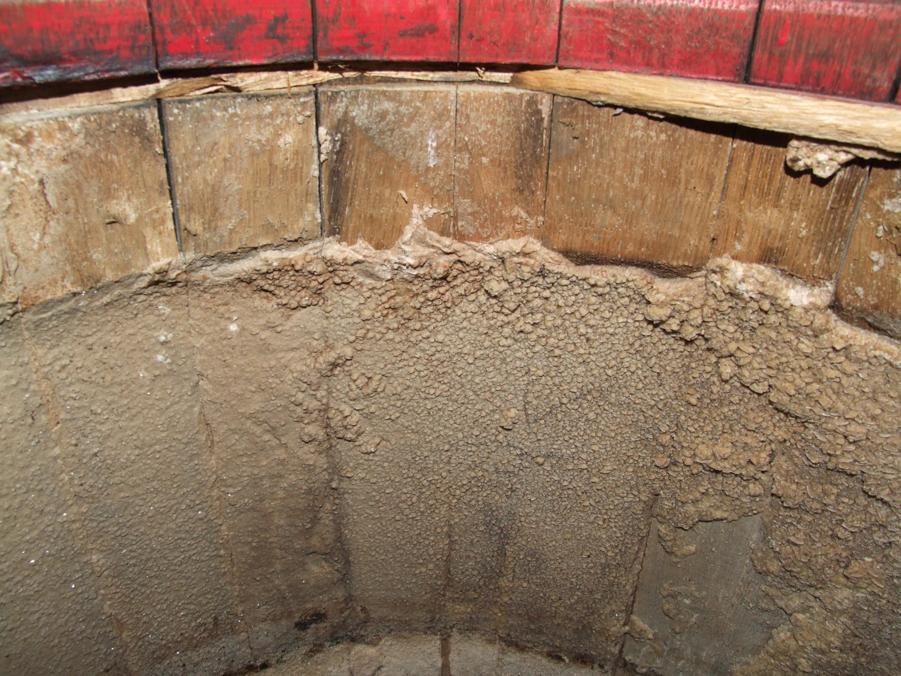 Potassium bitartrate in a wine barrel